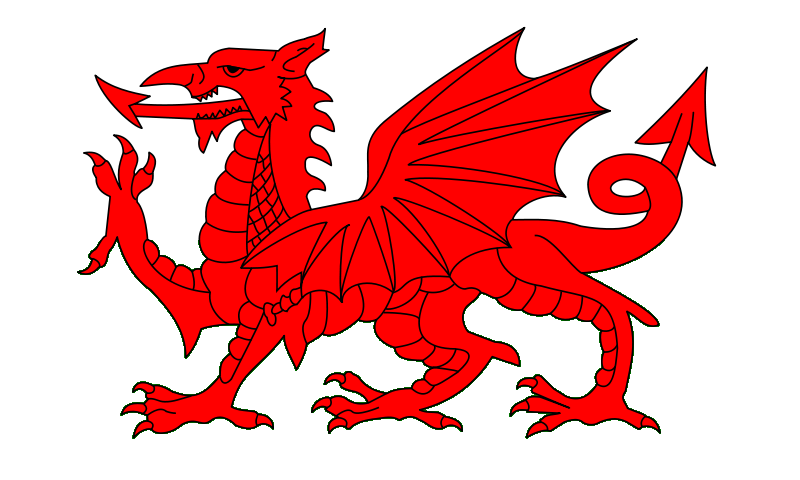 Welsh Dragon. The Red Dragon on a White Field was attributed as a badge referring to Cadwaladr during the High Middle Ages.